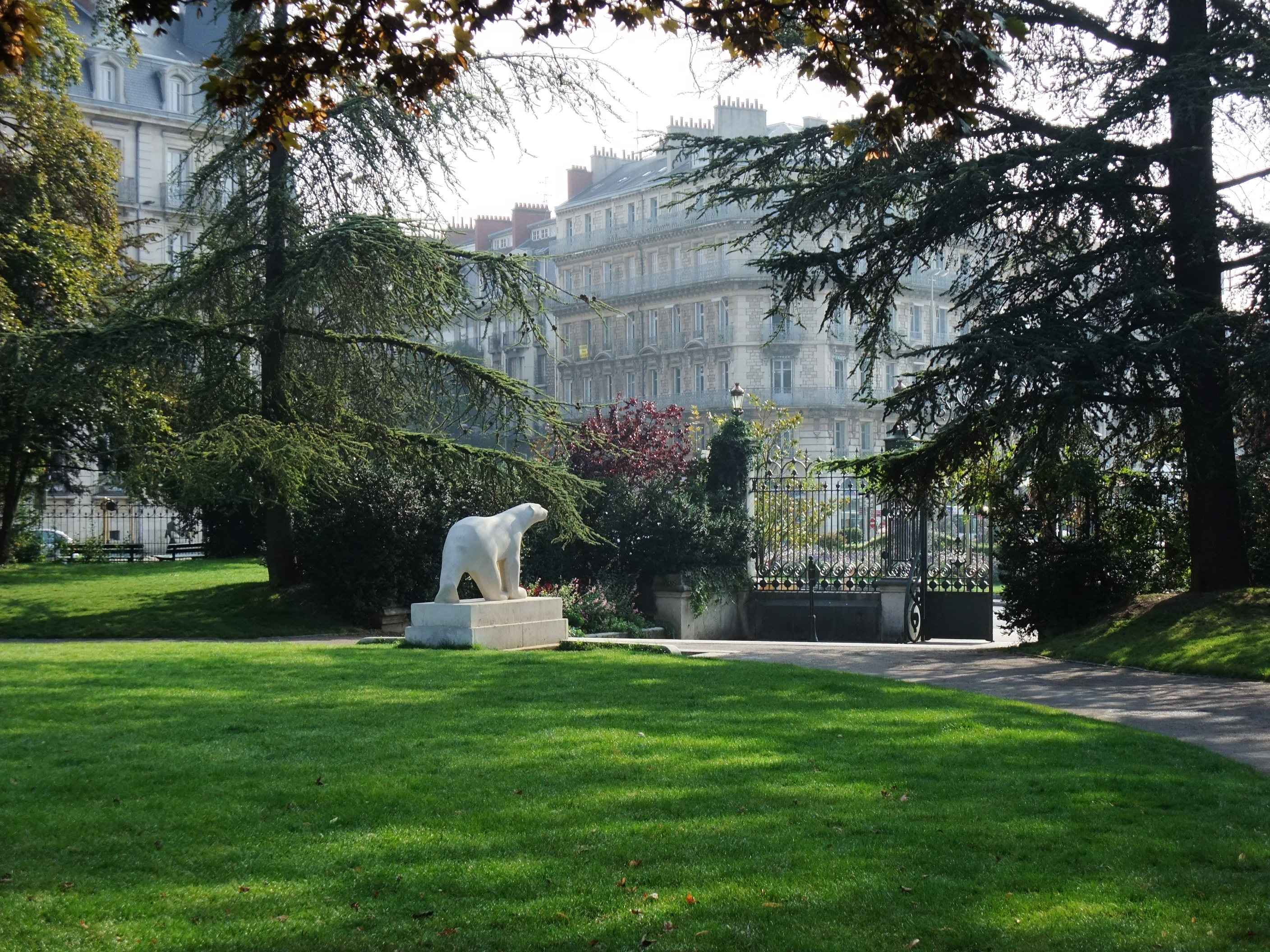 Jardin Darcy in Dijon, Burgundy, France